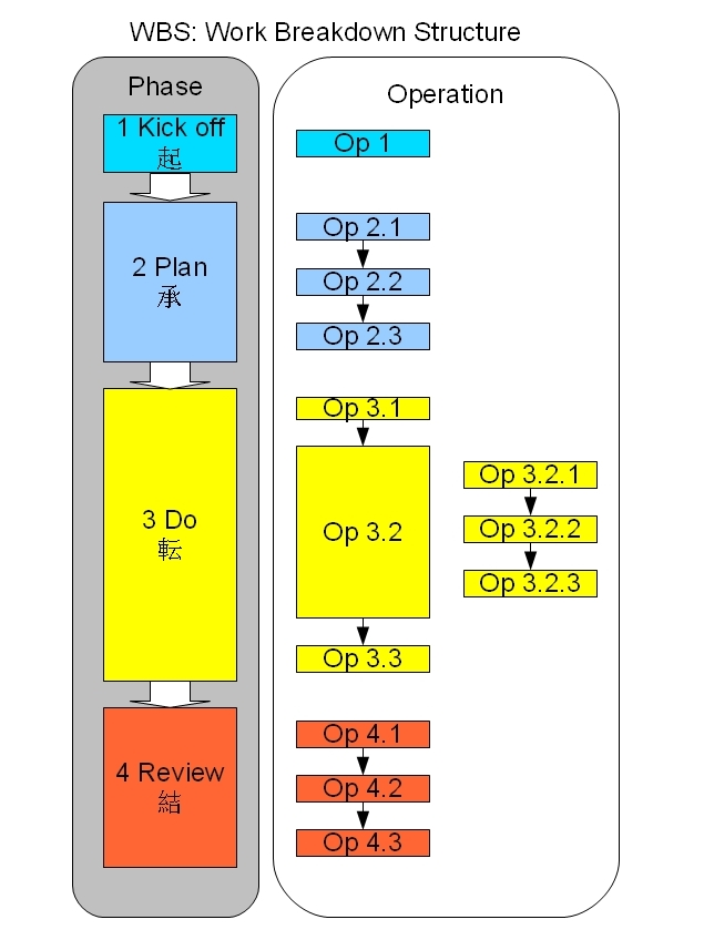 WBS: Work Breakdown Structure (sample)